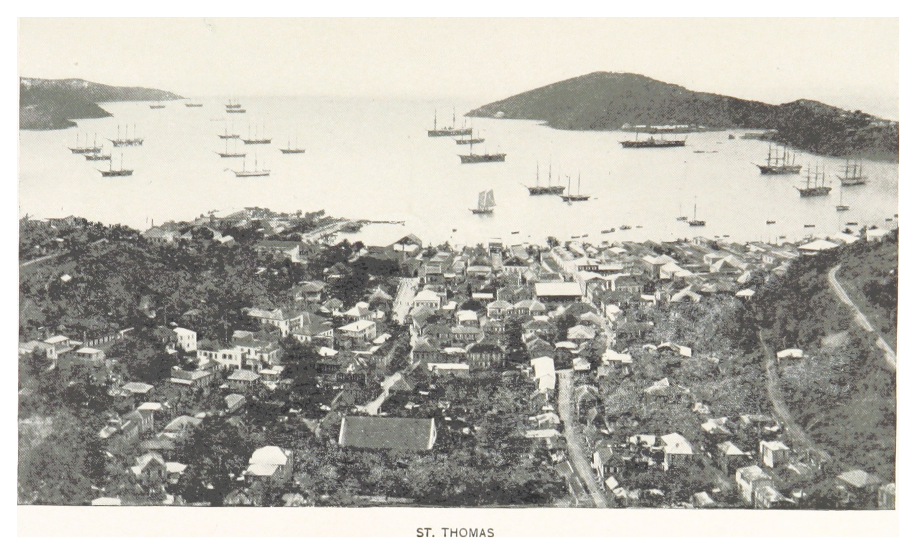 Saint Thomas Harbor and Charlotte Amalie— on St. Thomas island in the Danish West Indies. Hassel Island seen in upper right. In the present day United States Virgin Islands.